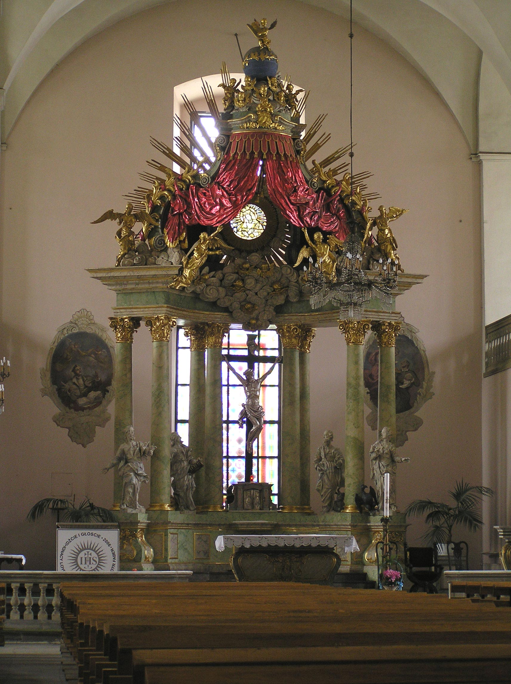 Toruń, Holy Ghost church, high altar.